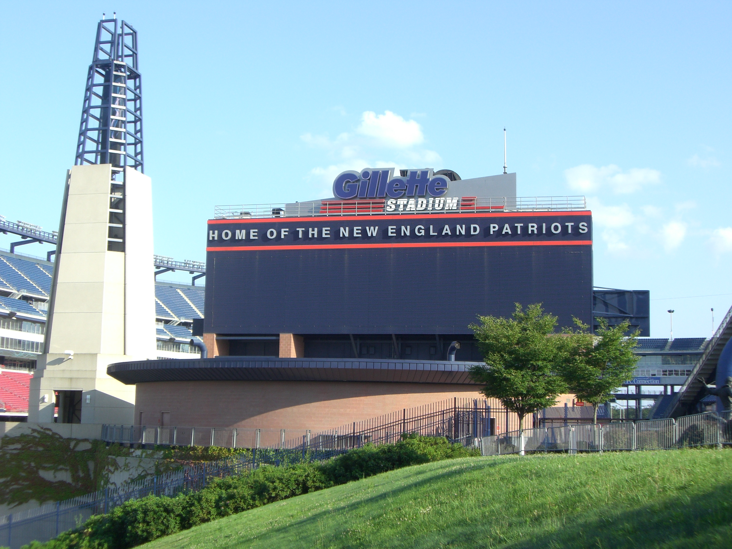 Gillette_Stadium_Patriots_Home_Sign